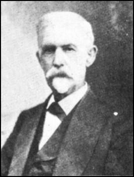 Edward Asbury O'Neal (1818-1890), American politician and Confederate States Army Brigadier General